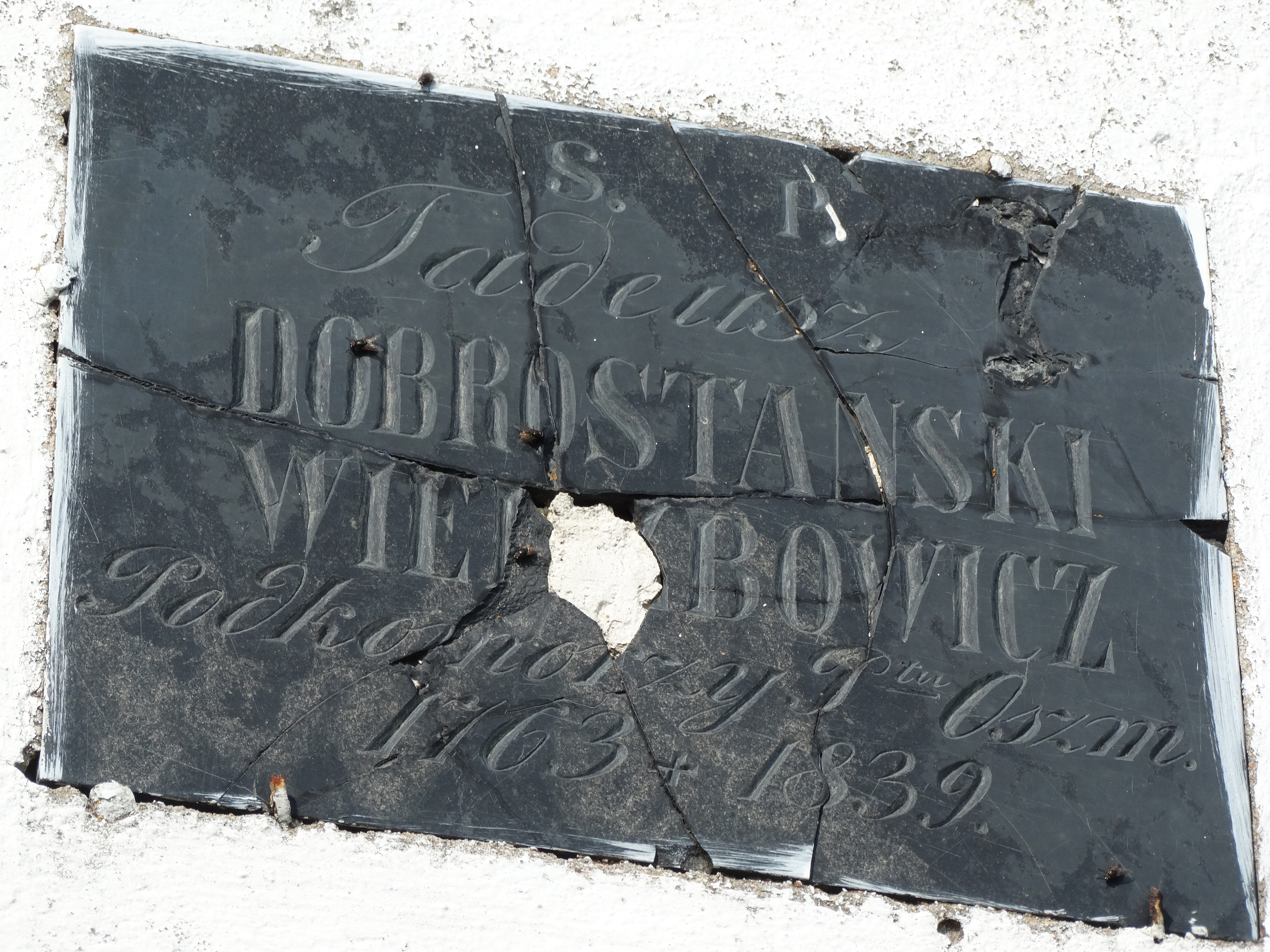 Chapel epitaph (Dobrostański Tadeusz Wierzbowicz), Turgeliai, Šalčininkai District, Lithuania